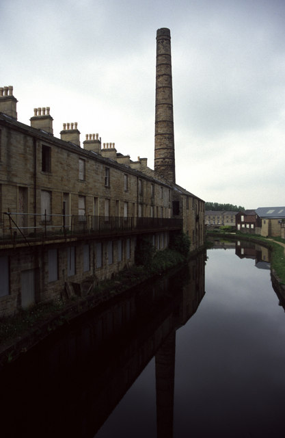 Weaver's Triangle, Burnley.